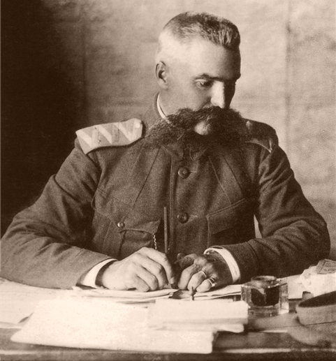 Major-General Konstantin Mamontov (1869—1920) — commander of the eastern (Tsaritsyn) direction of the Don Army, 1918. Civil War in Russia (1917—1922).